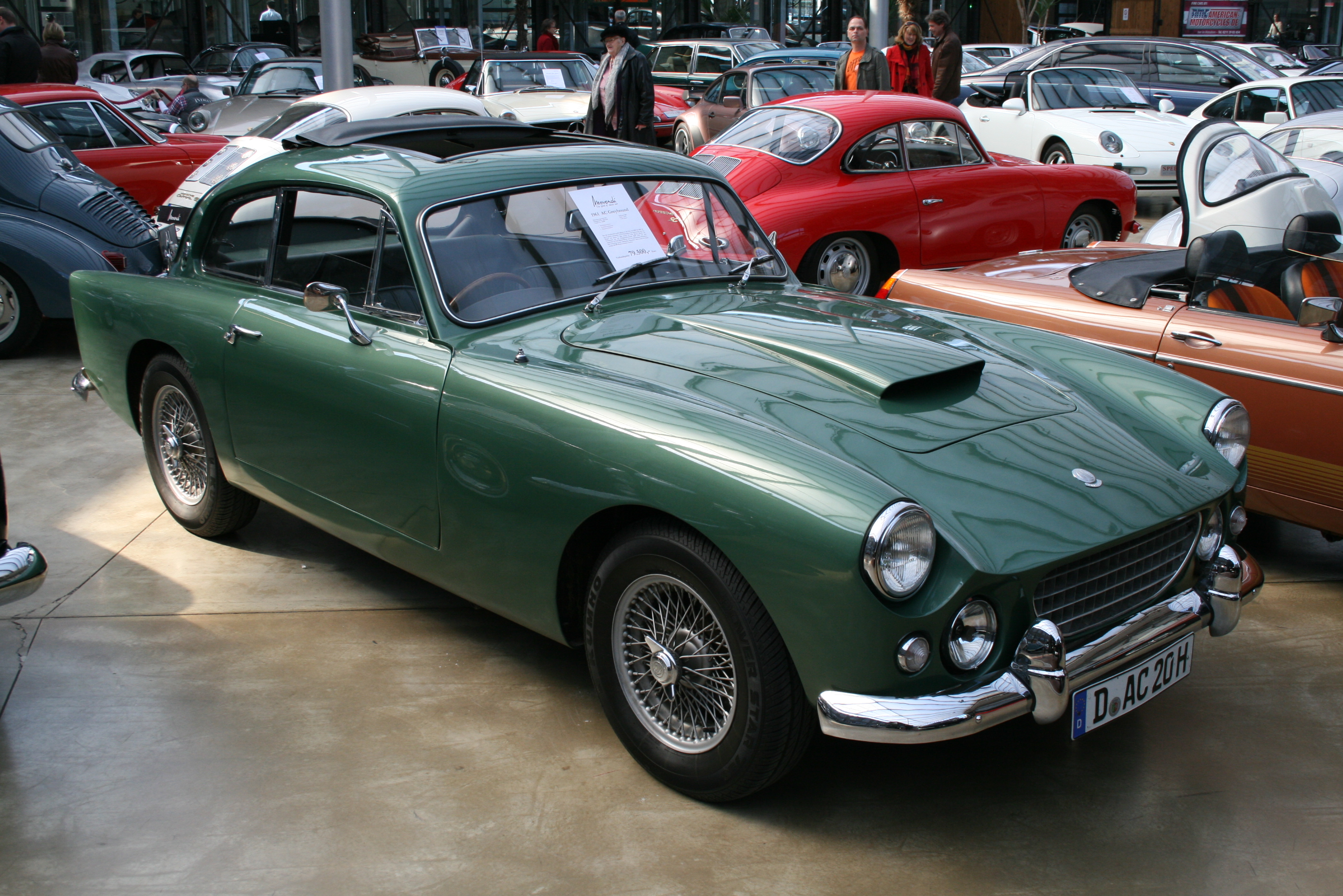 AC Greyhound, 1961, seen at CLASSIC REMISE, Düsseldorf, Germany